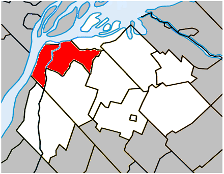 Location of Sorel-Tracy, Quebec within Pierre-De Saurel Regional County Municipality.